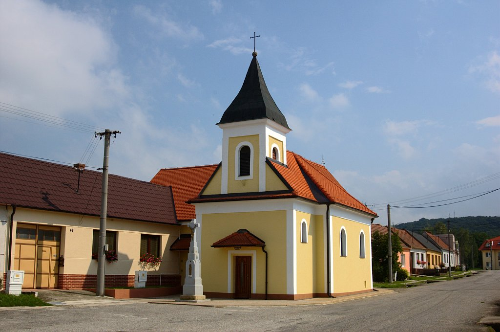 Church in Lopašov